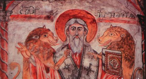 Saint Athanasius Church Fresco, Northern Wall of the Naos